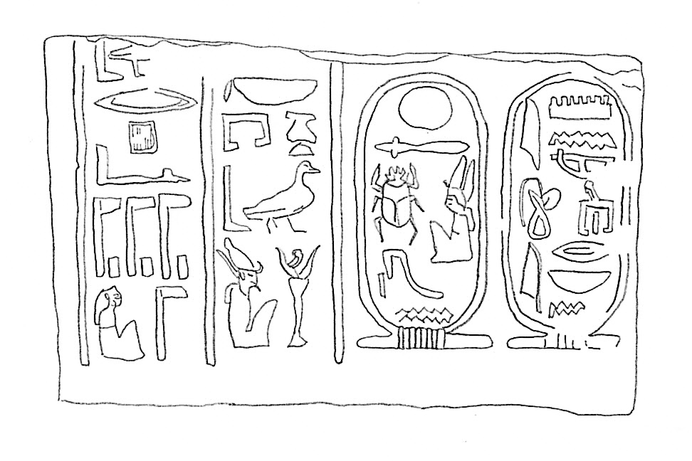 Drawing of a block-relief bearing the name of pharaoh Aakheperre-setepenamun Osorkon-meryamun. This pharaoh was once considered to be Osorkon IV of the 22nd Dynasty, but it is now believed that he is Osorkon the Elder of the earlier 21st Dynasty instead. Original in Rijksmuseum van Oudheden, Leiden, inv. No.: F 1971/9.1.